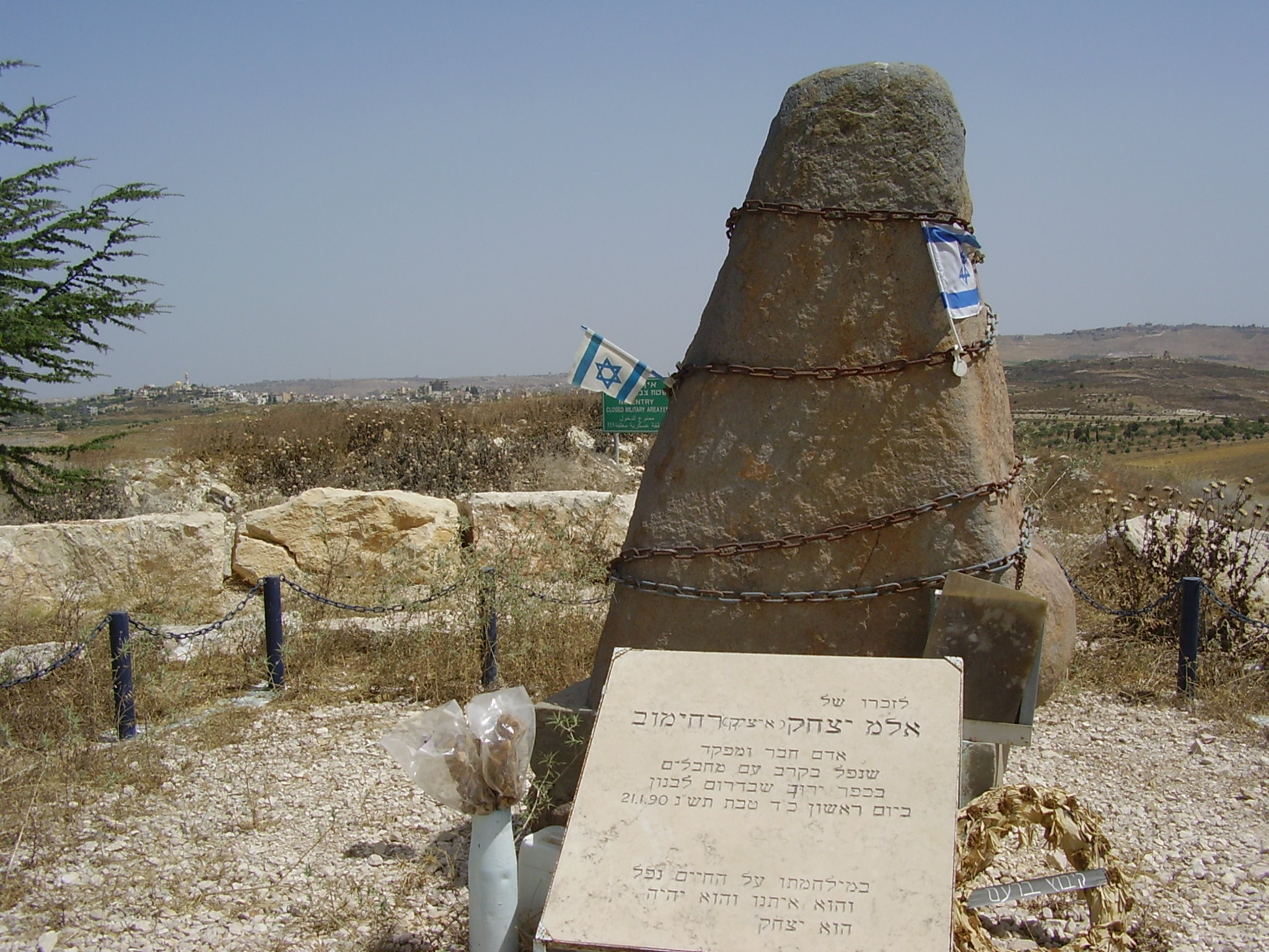 memorial to col. itzik rahimov